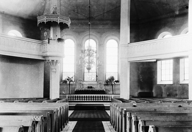 Byske Church 1937. Photo acquired from Rolf Forssén.